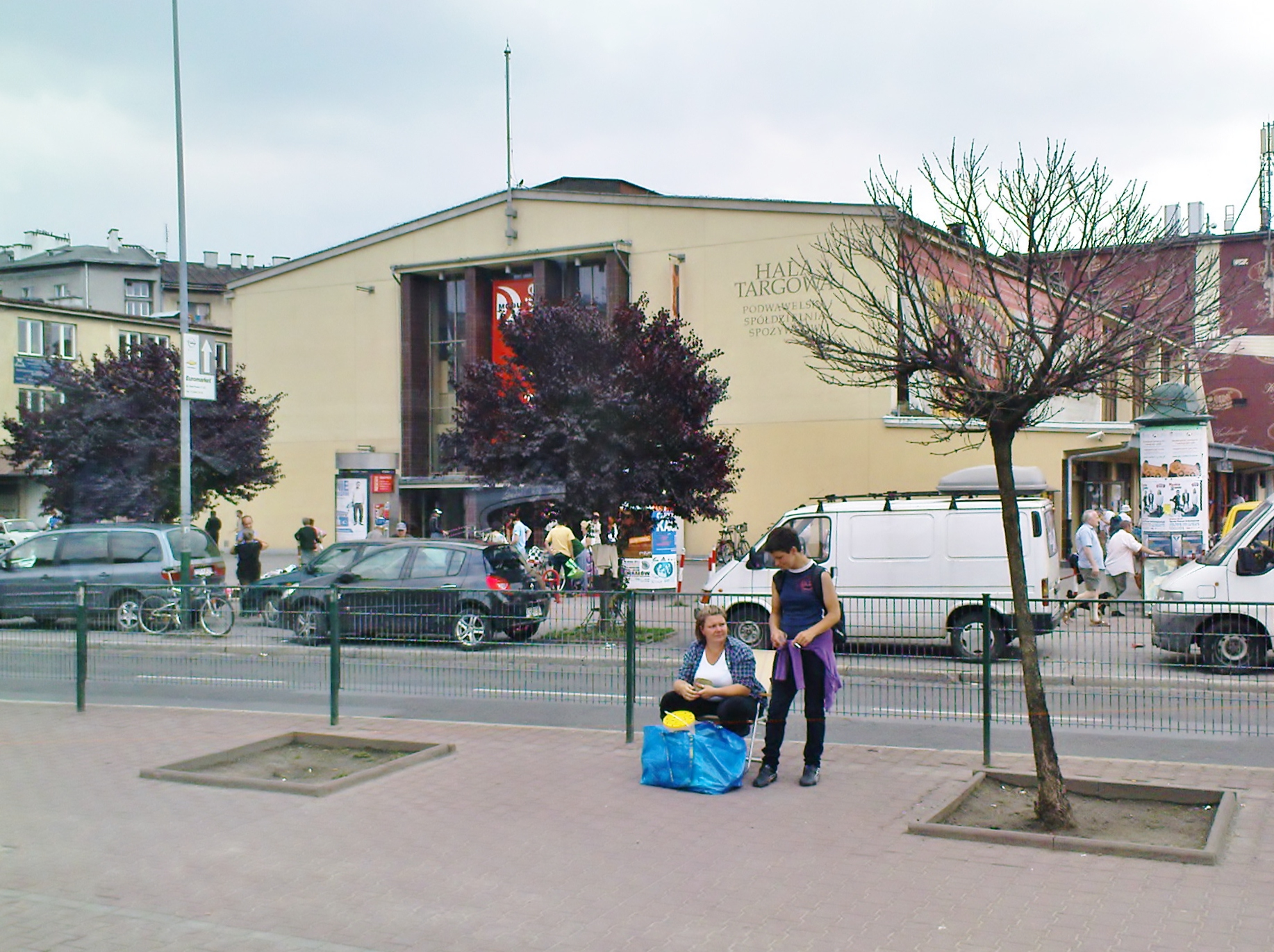 Krakow - the market hall at the Grzegórzecka Street